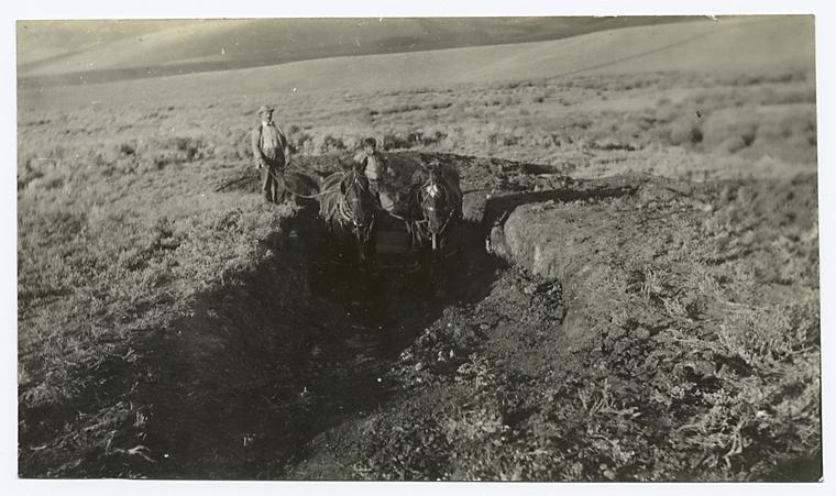 "Trenching for Coal, Colorado." The New York Public Library Digital Collections. 1860 - 1920. The Miriam and Ira D. Wallach Division of Art, Prints and Photographs: Photography Collection, The New York Public Library.